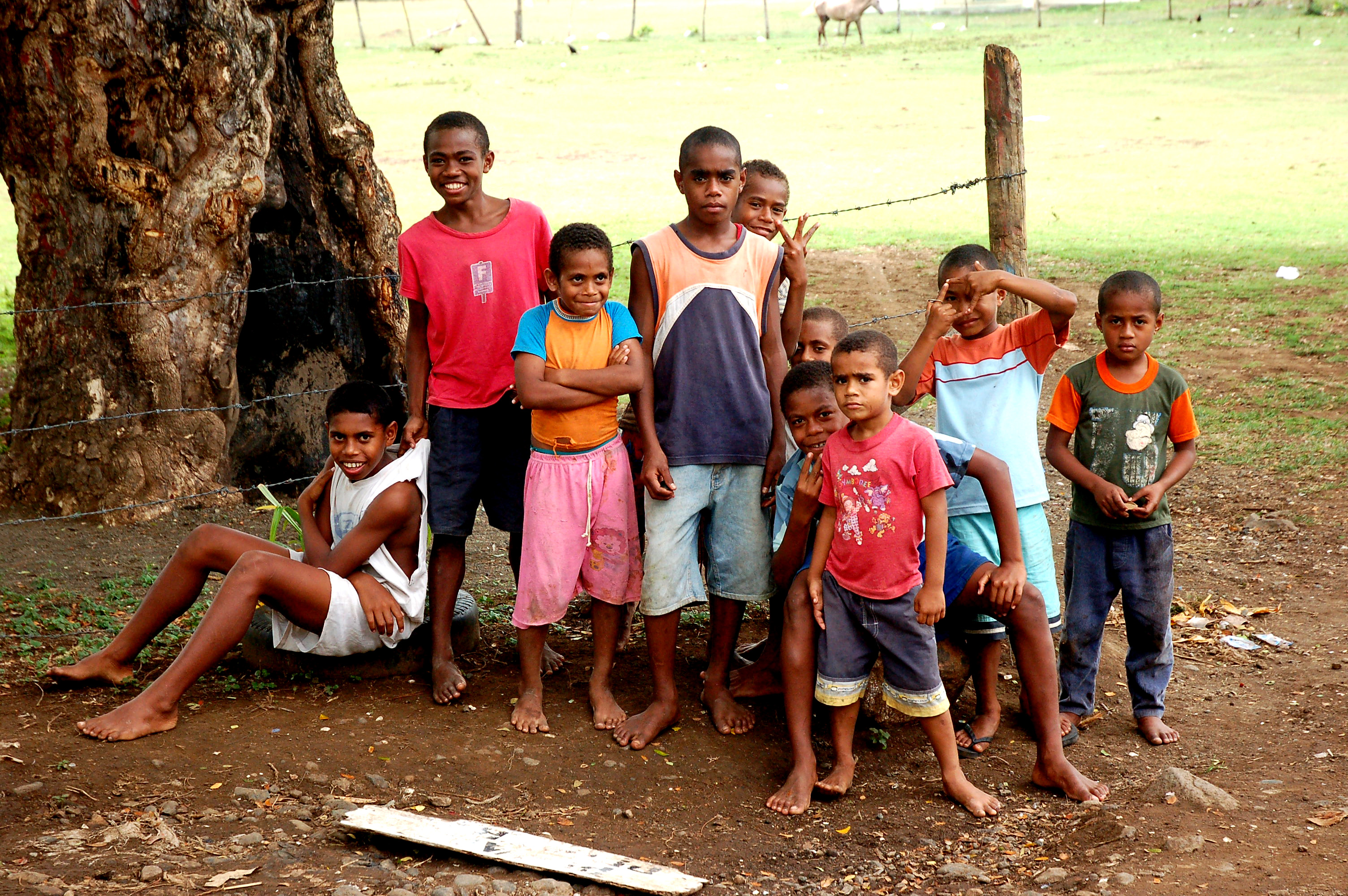 It seems like every emotion possible is in this photo.